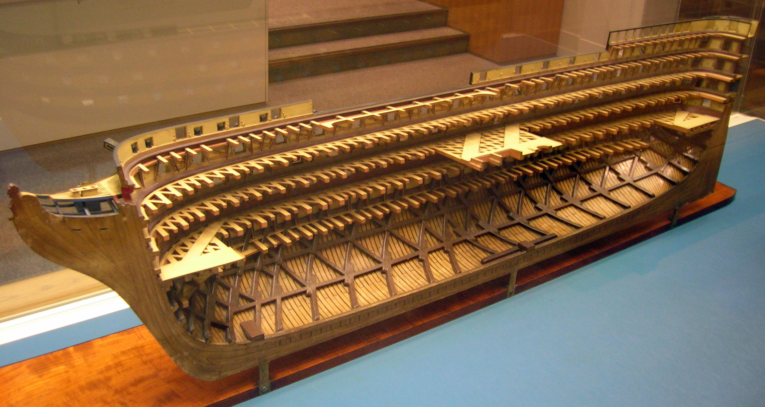 Model of Caledonia, 10-gun 1st rate, launched 1808, showing shipbuilding improvements like the stronger round bow and stern, and diagonal bracing.